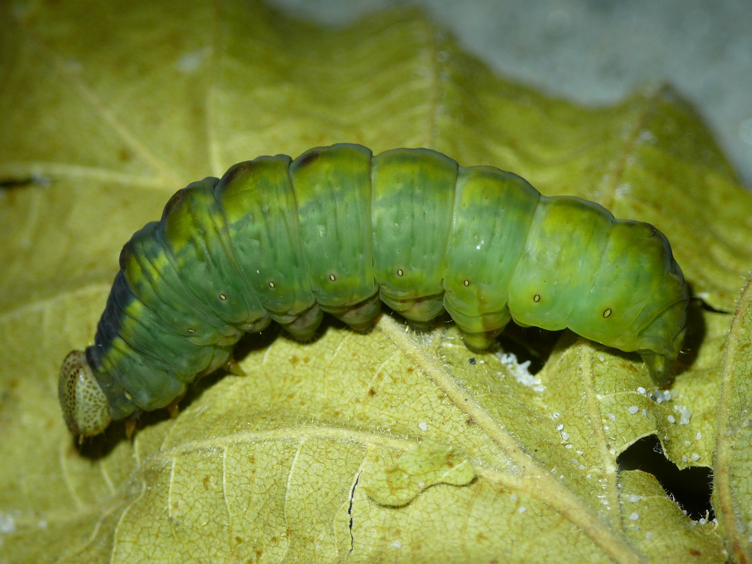 Caterpillar of the Iron Prominent (Notodonta dromedarius) just before pupation, Munich environs, Germany